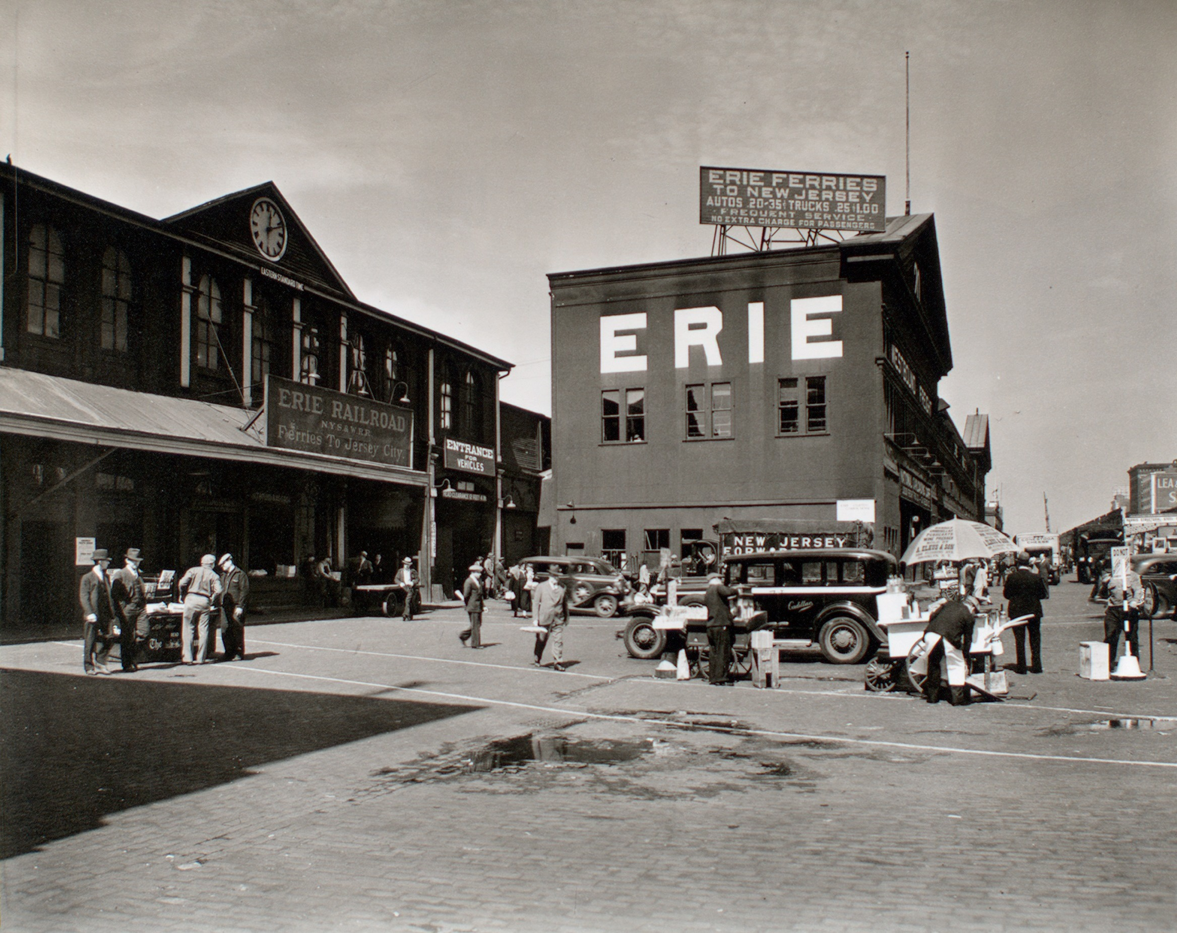 Code: II.A.1.d. Traffic and vendors in front of Erie Railroad ferry, terminal at left, other building center. Citation/Reference: CNY# 291